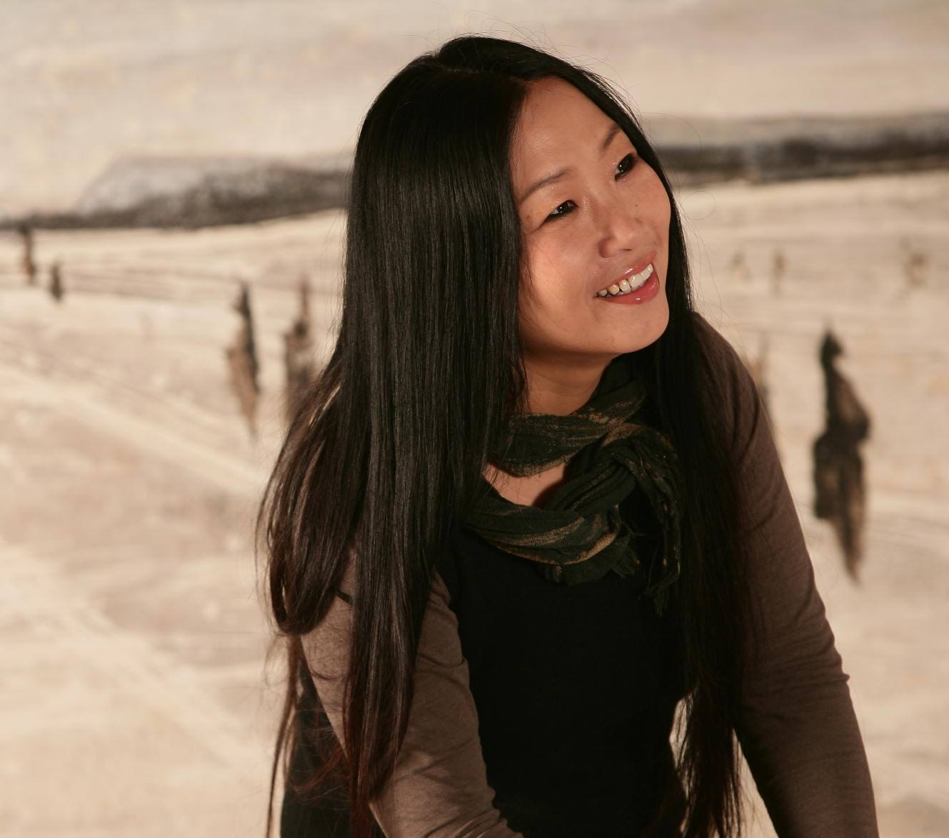 Portrait of Li Chevalier